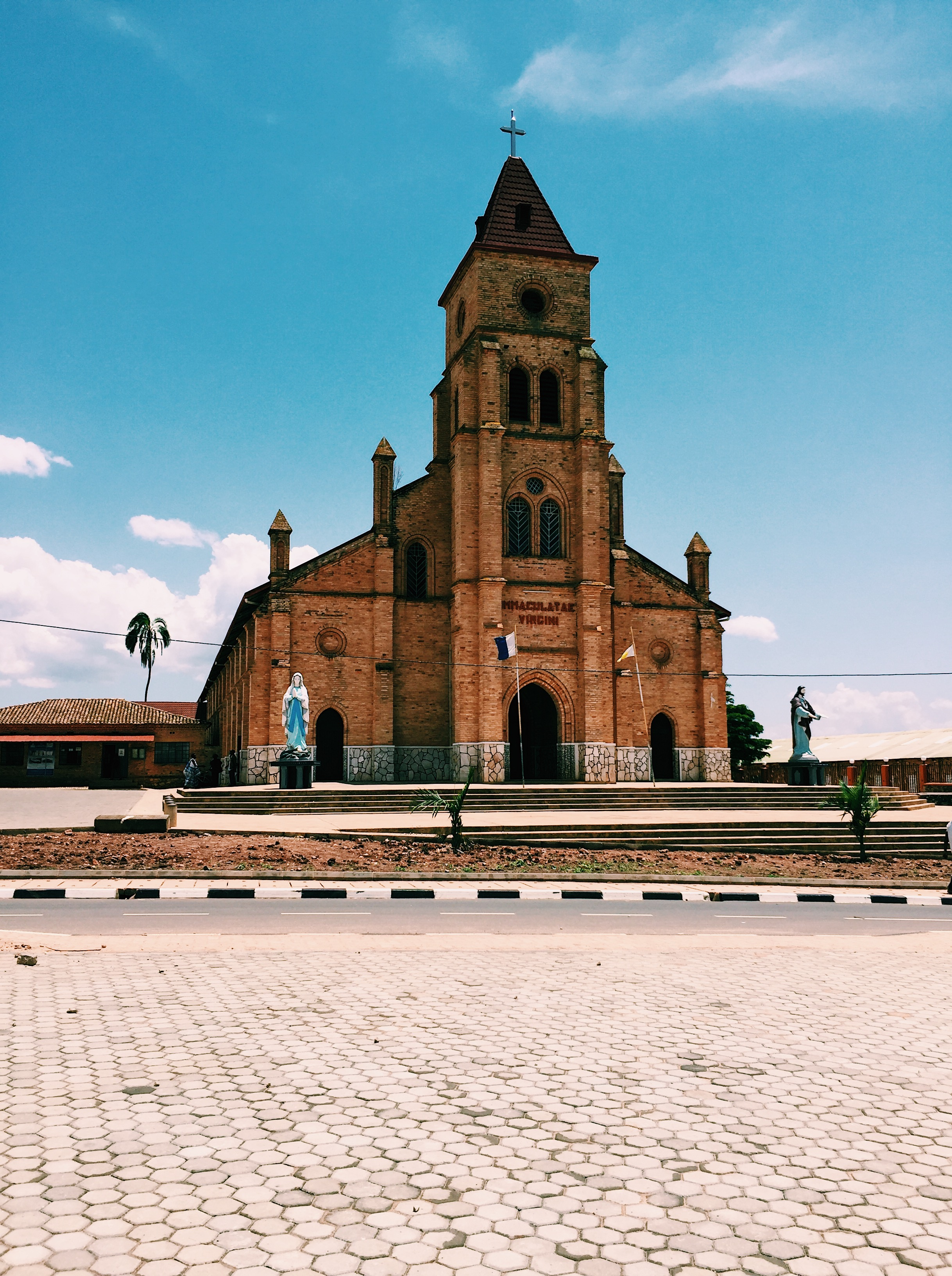 The Cathedral Basilica of Our Lady is a Roman Catholic cathedral and minor basilica dedicated to the Blessed Virgin Mary located in Kabgayi, Rwanda. This is an image with the theme "Play" from: Rwanda